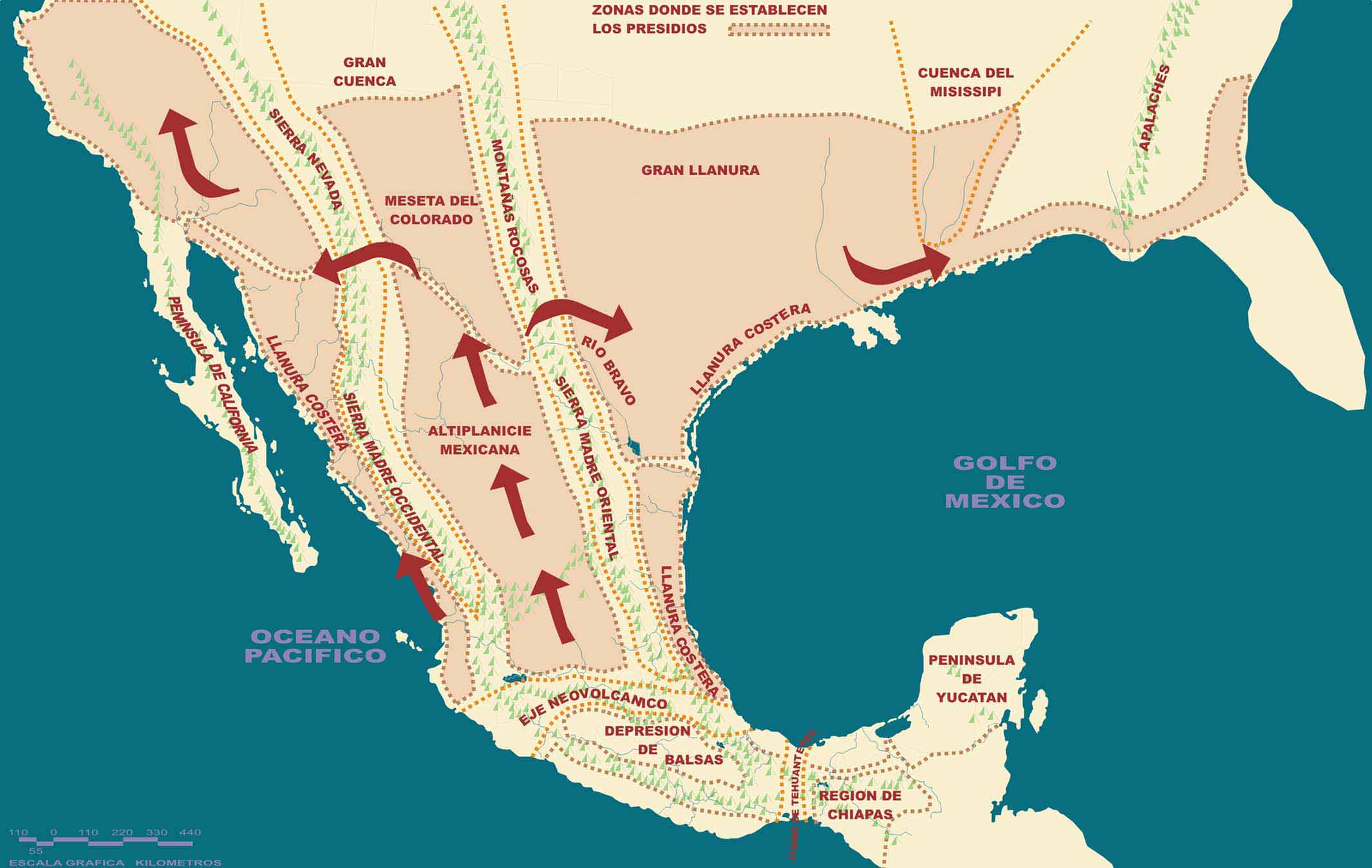 Map of New Spain